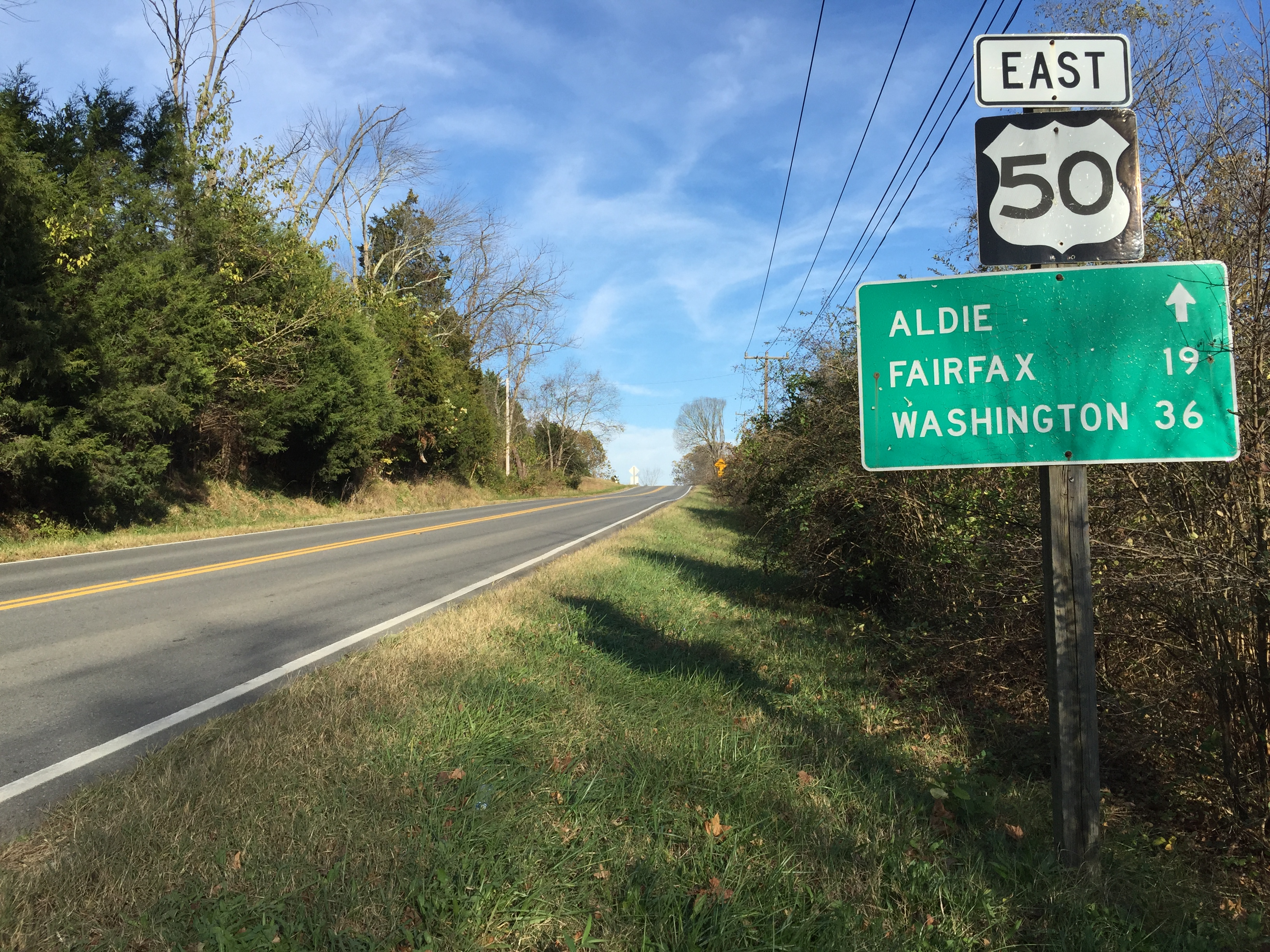 View east along U.S. Route 50 (John Mosby Highway) at Champe Ford Road (Virginia State Secondary Route 629) in Stoke, Loudoun County, Virginia